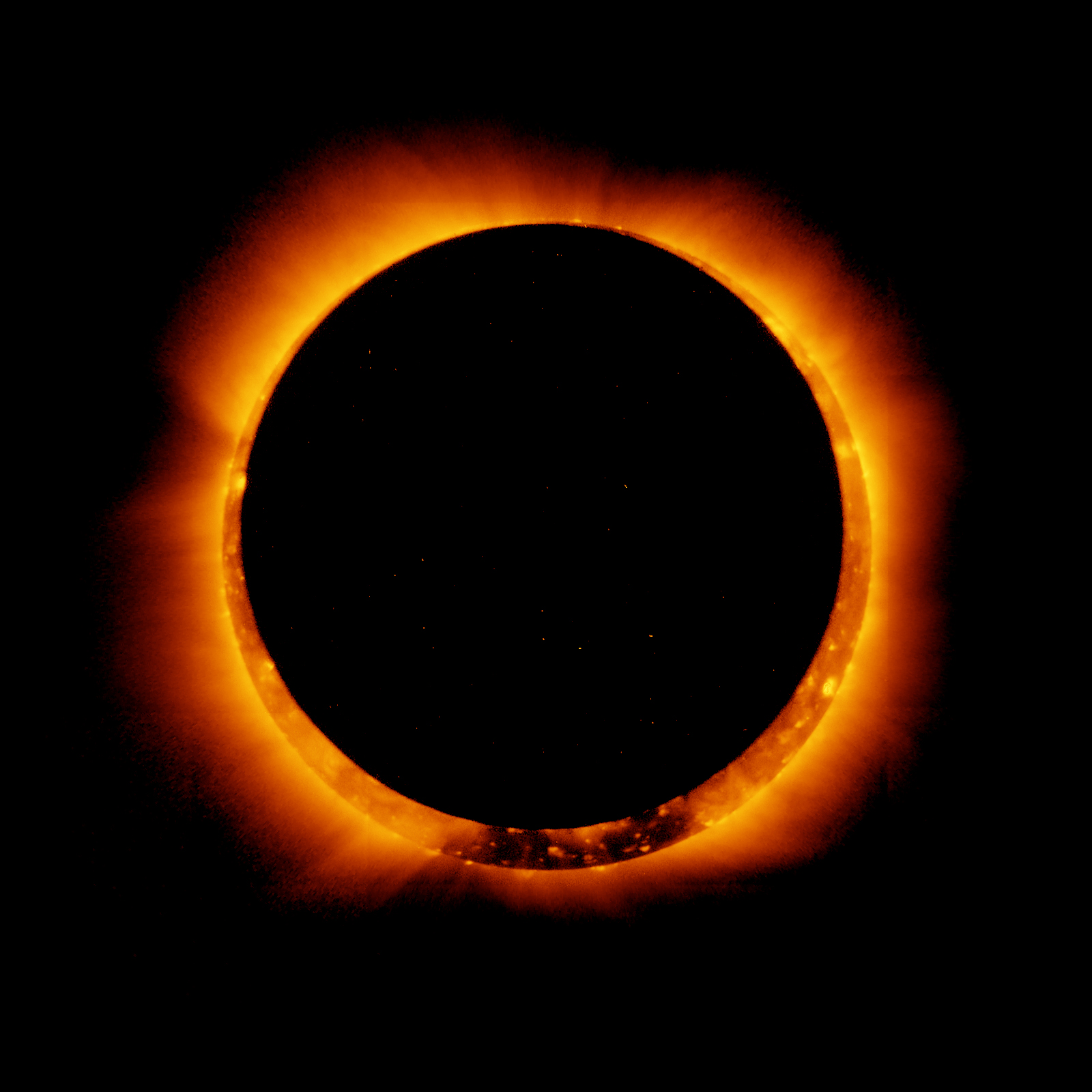 To see a video of this event go to: On January 4 2011, the Hinode satellite captured these breathtaking images of an annular solar eclipse. An annular eclipse occurs when the moon, slightly more distant from Earth than on average, moves directly between Earth and the sun, thus appearing slightly smaller to observers' eyes; the effect is a bright ring, or annulus of sunlight, around the silhouette of the moon. Hinode, a Japanese mission in partnership with NASA, NAOJ, STFC, ESA, and NSC, currently in Earth orbit, is studying the Sun to improve our understanding of the mechanisms that power the solar atmosphere and drive solar eruptions. Hinode, launched in September 2006, uses three advanced optical instruments to further our understanding of the solar atmosphere and turbulent solar eruptions that can impact hardware in orbit and life on Earth.